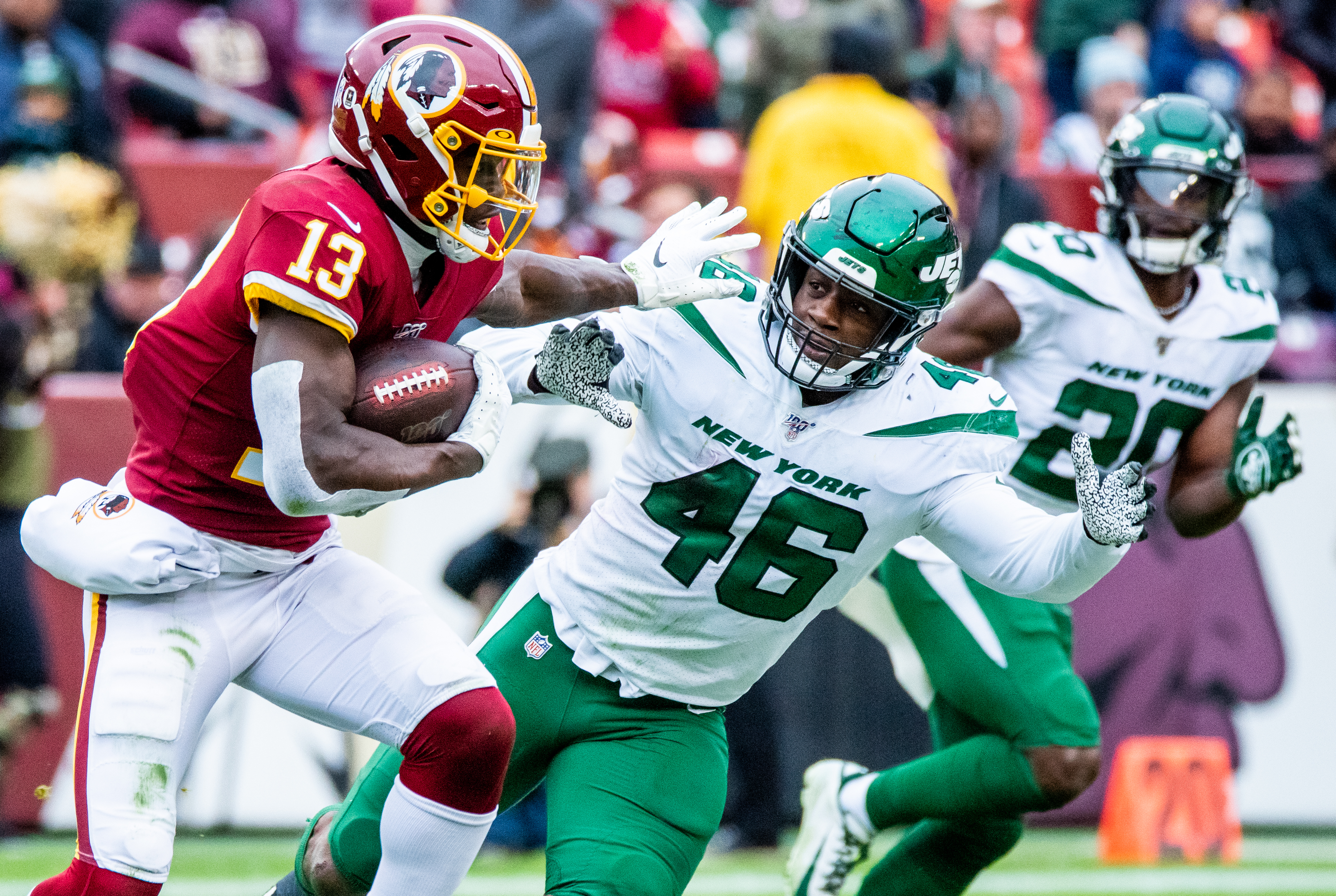 In 2019